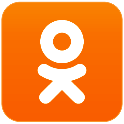 New logo of Ok.ru